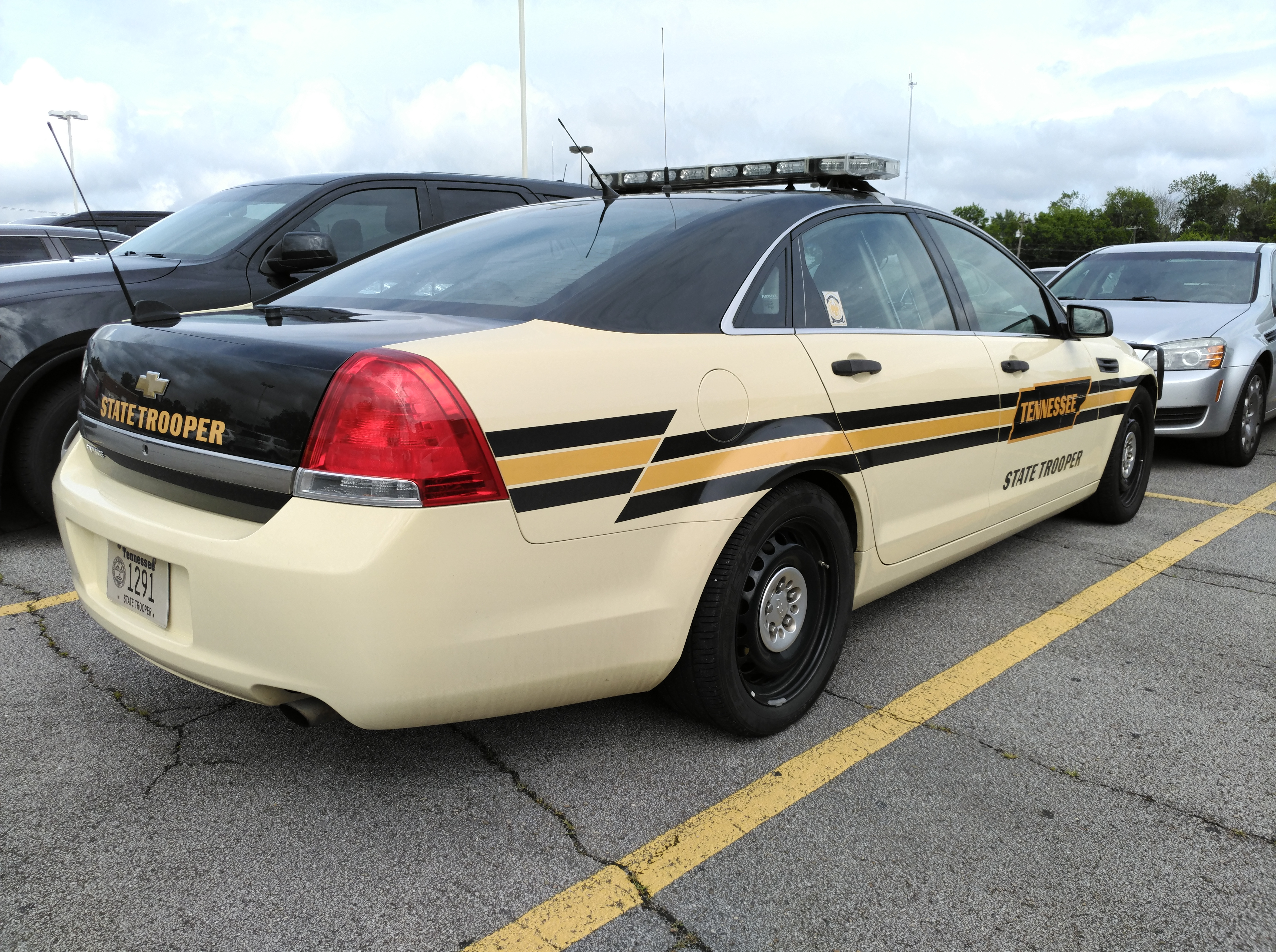 Tennessee Highway Patrol Chevy Caprice #1211